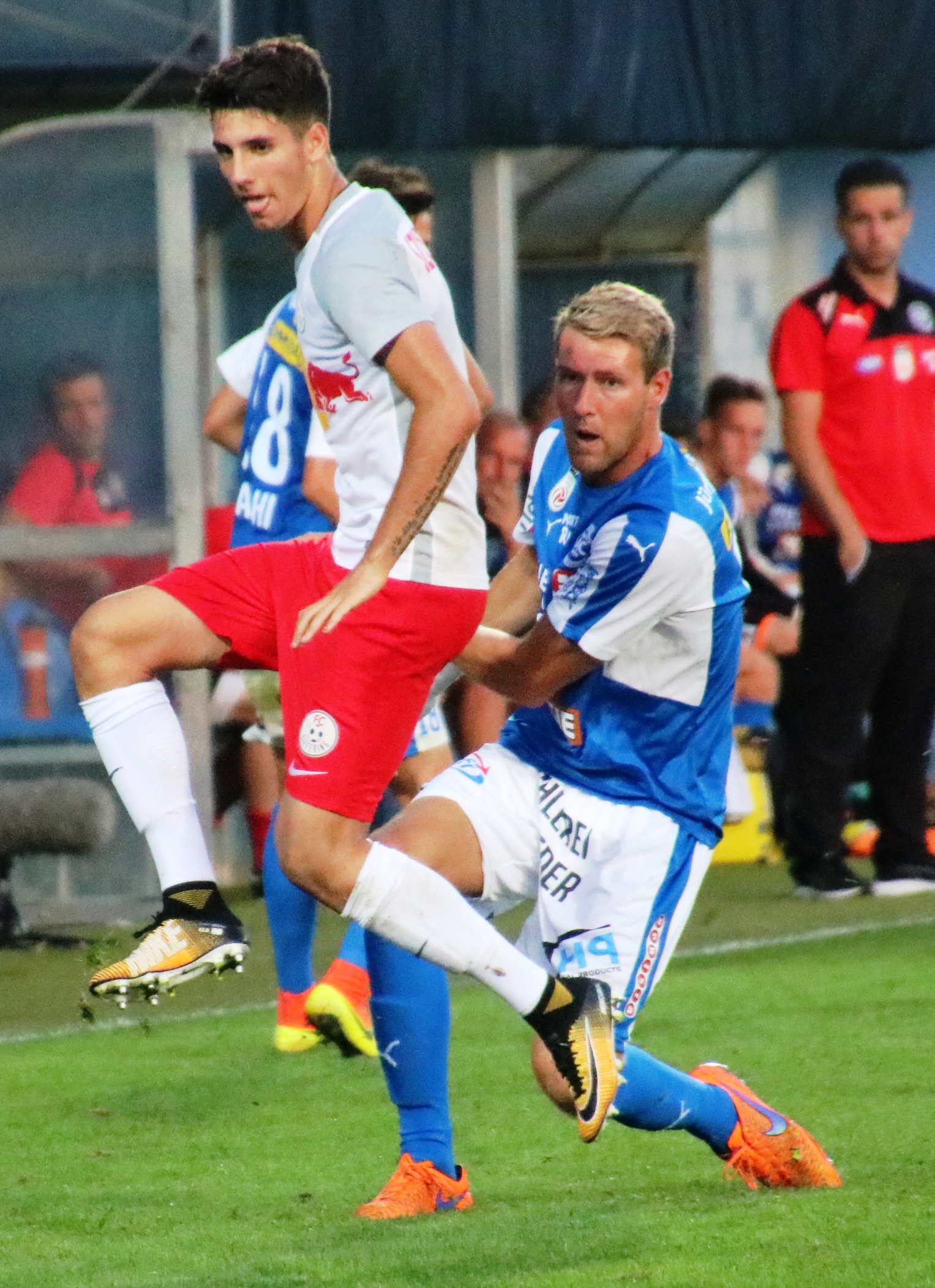 league match Austria 2nd league